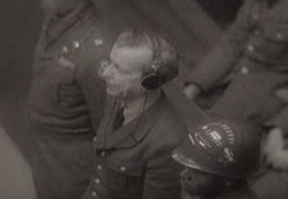 German General Wilhelm Speidel (1895–1970), War Crimes Trials - Subsequent Trial Proceedings - Hostages Trial #7, Nuremberg, Germany. Sentencing Southeast Generals.